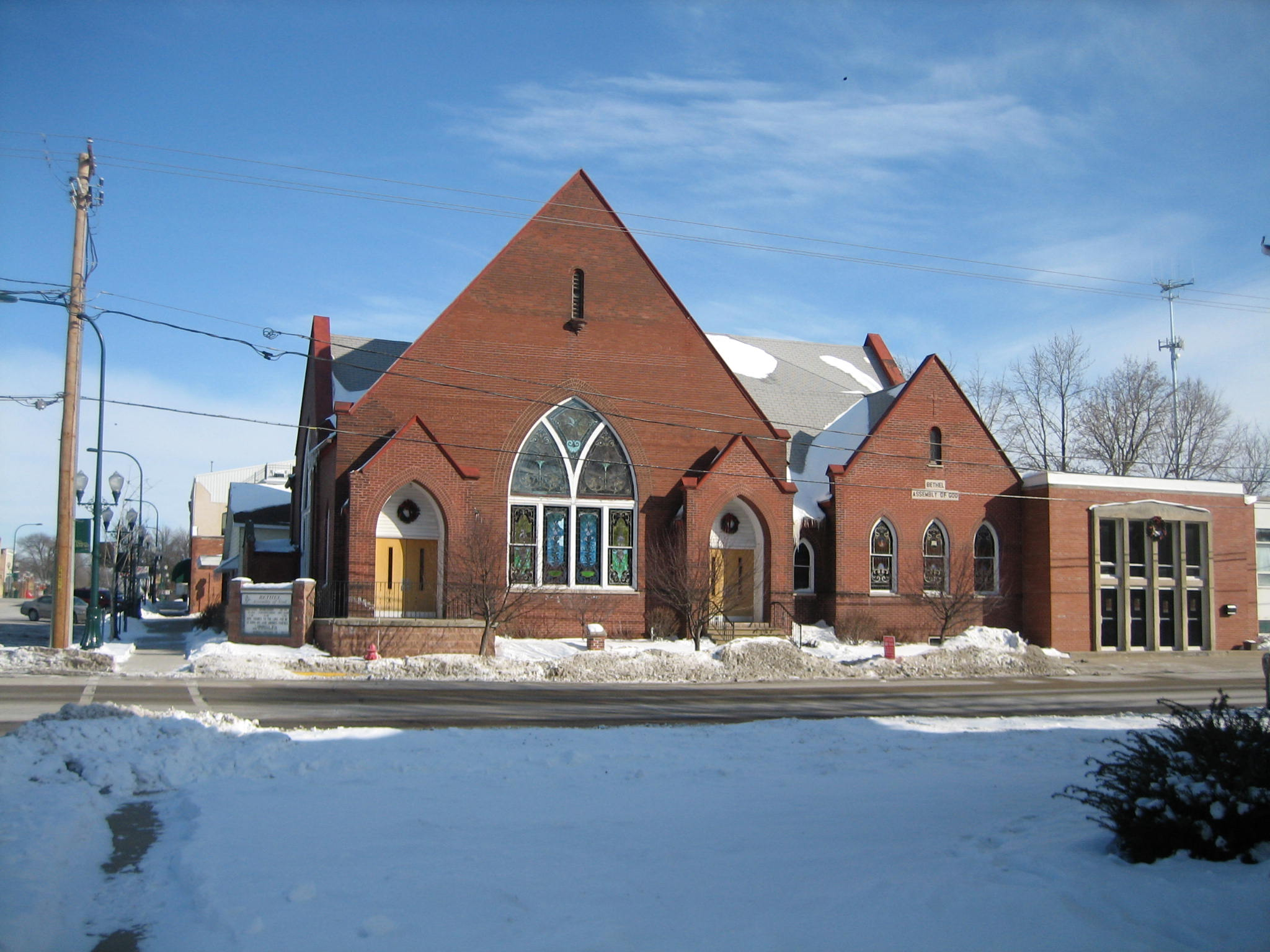 131 Elm St. First Baptist Church (Bethel Assembly of God (2007)), Sycamore, Illinois, Sycamore Historic District. National Register of Historic Places